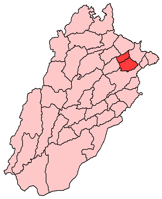 Map of Punjab with Gujranwala District highlighted